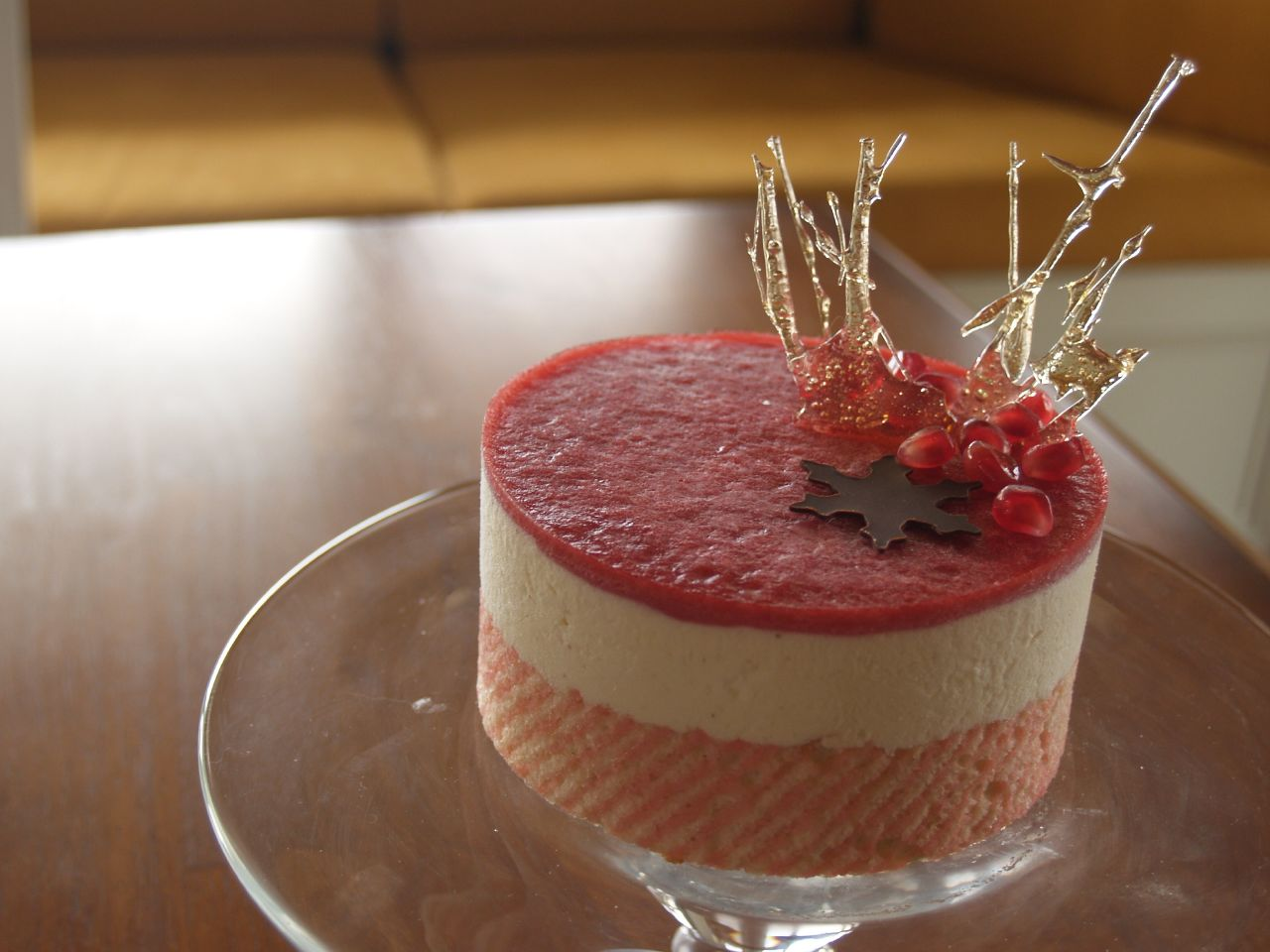 Eggnog mousse cake with almond dacquoise, striped jaconde, raspberry gelee, and chocolate/sugar decor.